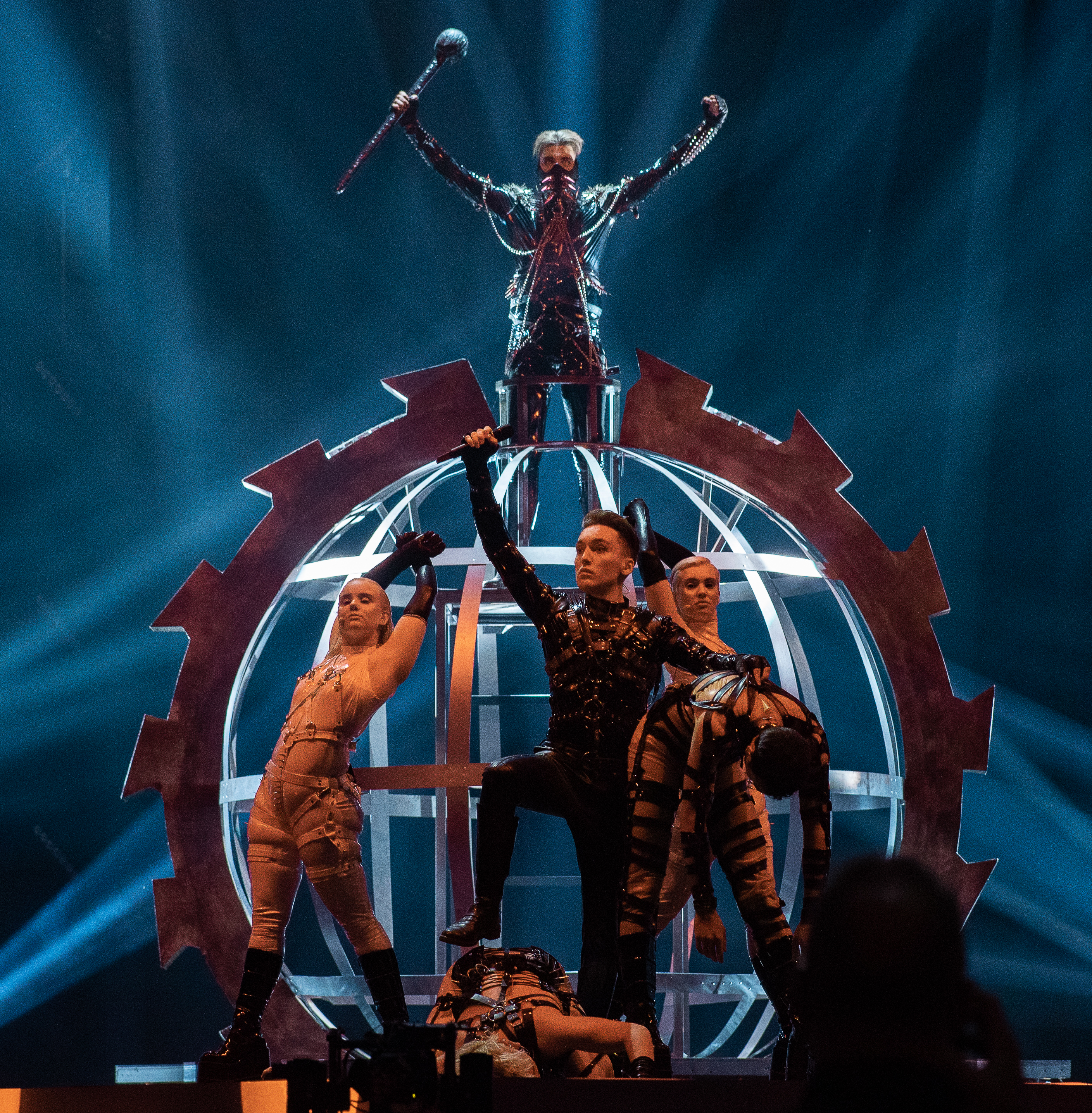 At the 2019 Eurovision Song Contest Semi-final 1 dress rehearsal